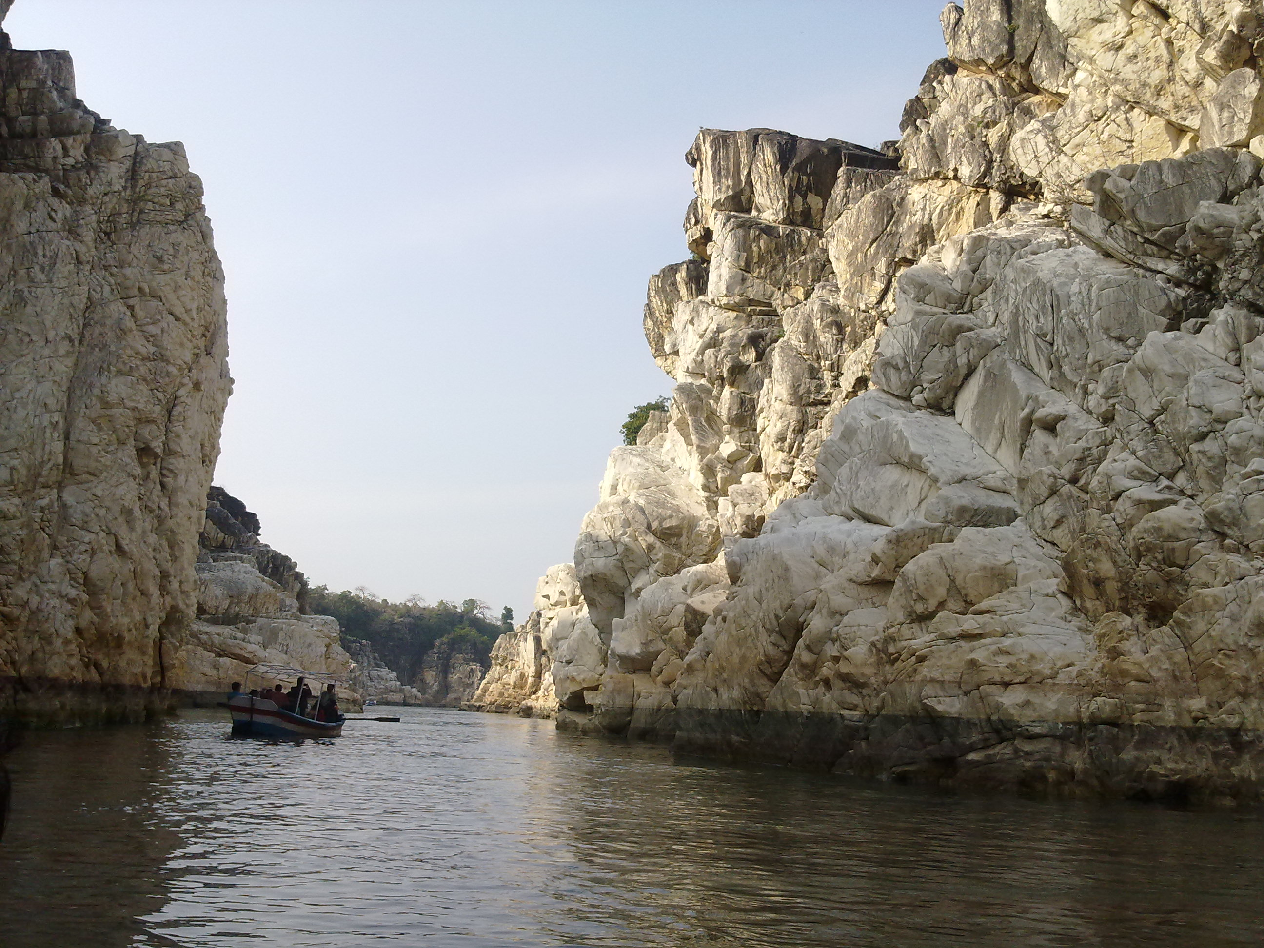 White marble rocks at Bhedaghat